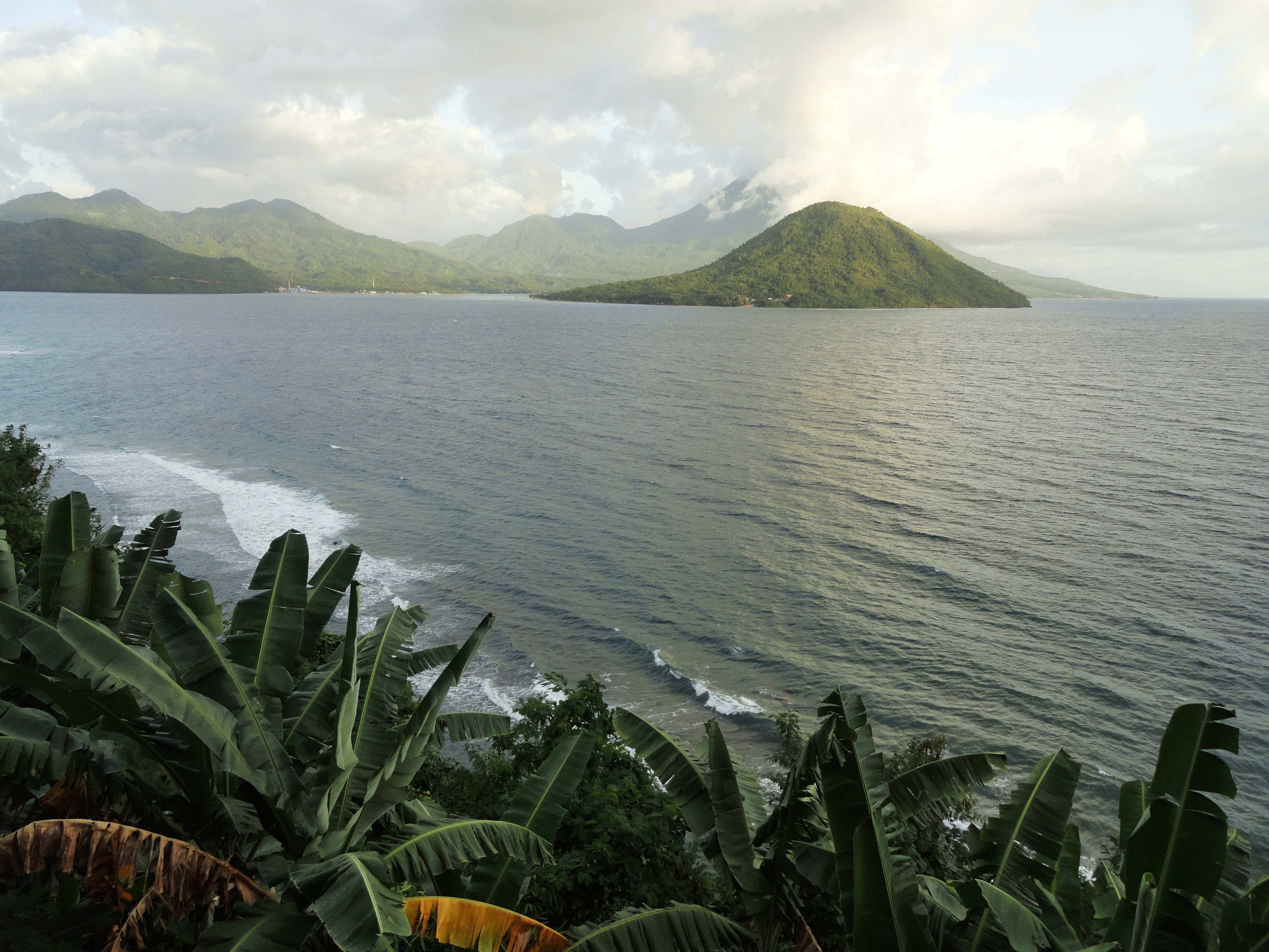 Pulau Maitara (Maitara Island) and Pulau Tidore (Tidore Island) from the Floridas Restaurant terrace in Pulau Ternate (Ternate Island), The Moluccas (Maluku), Indonesia